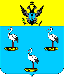 Coat of arms of Ananyiv of Russian Empire period